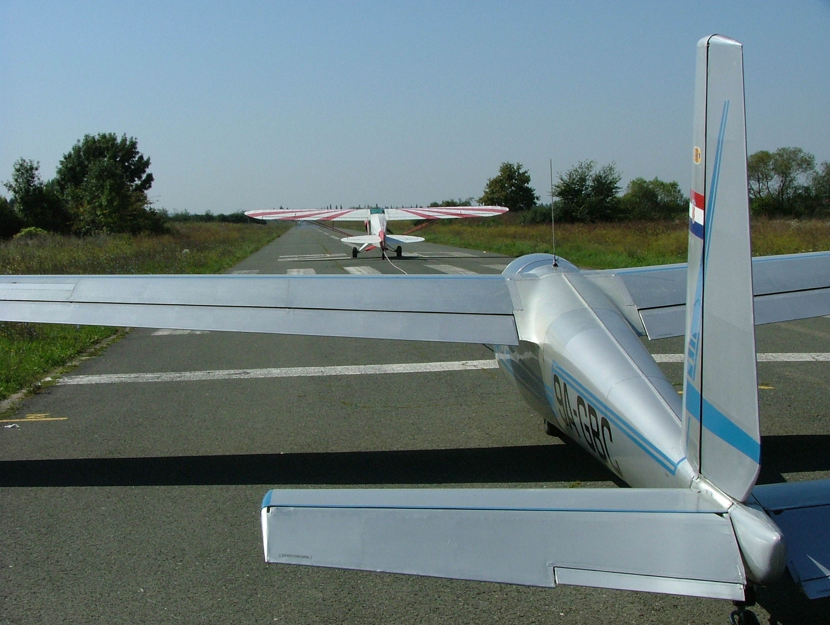 Towing on the ground